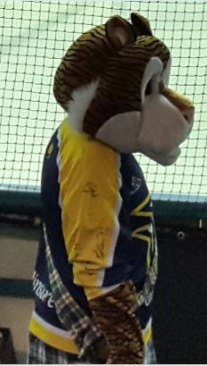 CBR Brave Unofficial Mascot Braveheart Lion 25 April 2015